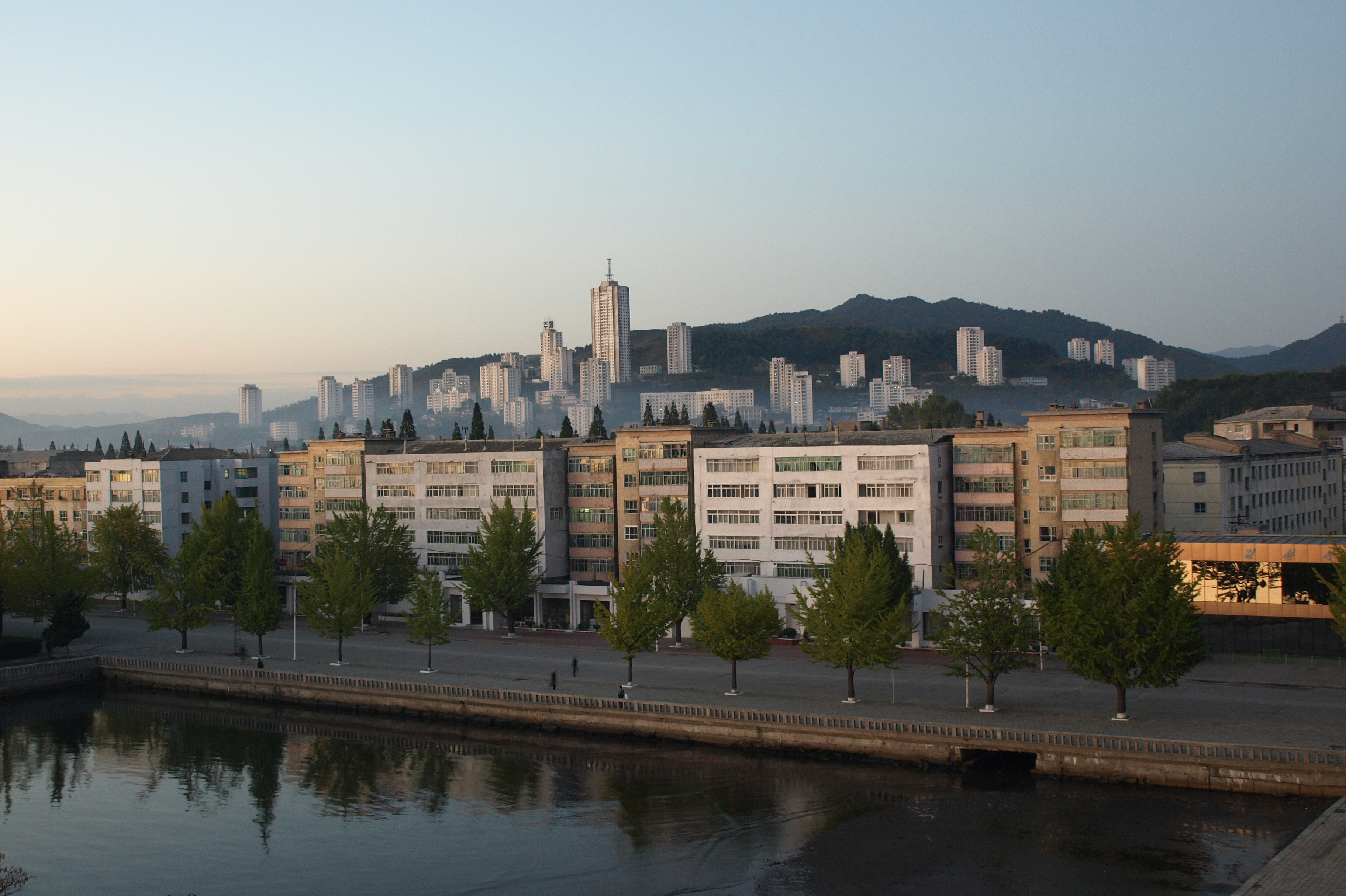 View from Songdowon hotel, Wonsan